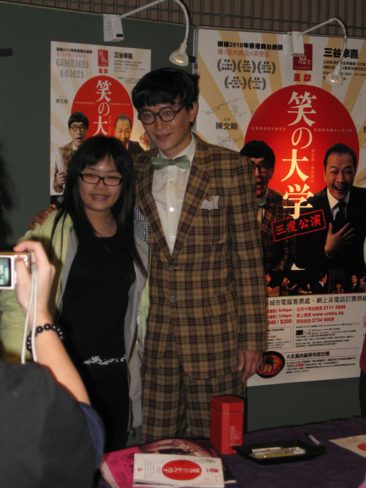 Rensen Chan Man-Kong